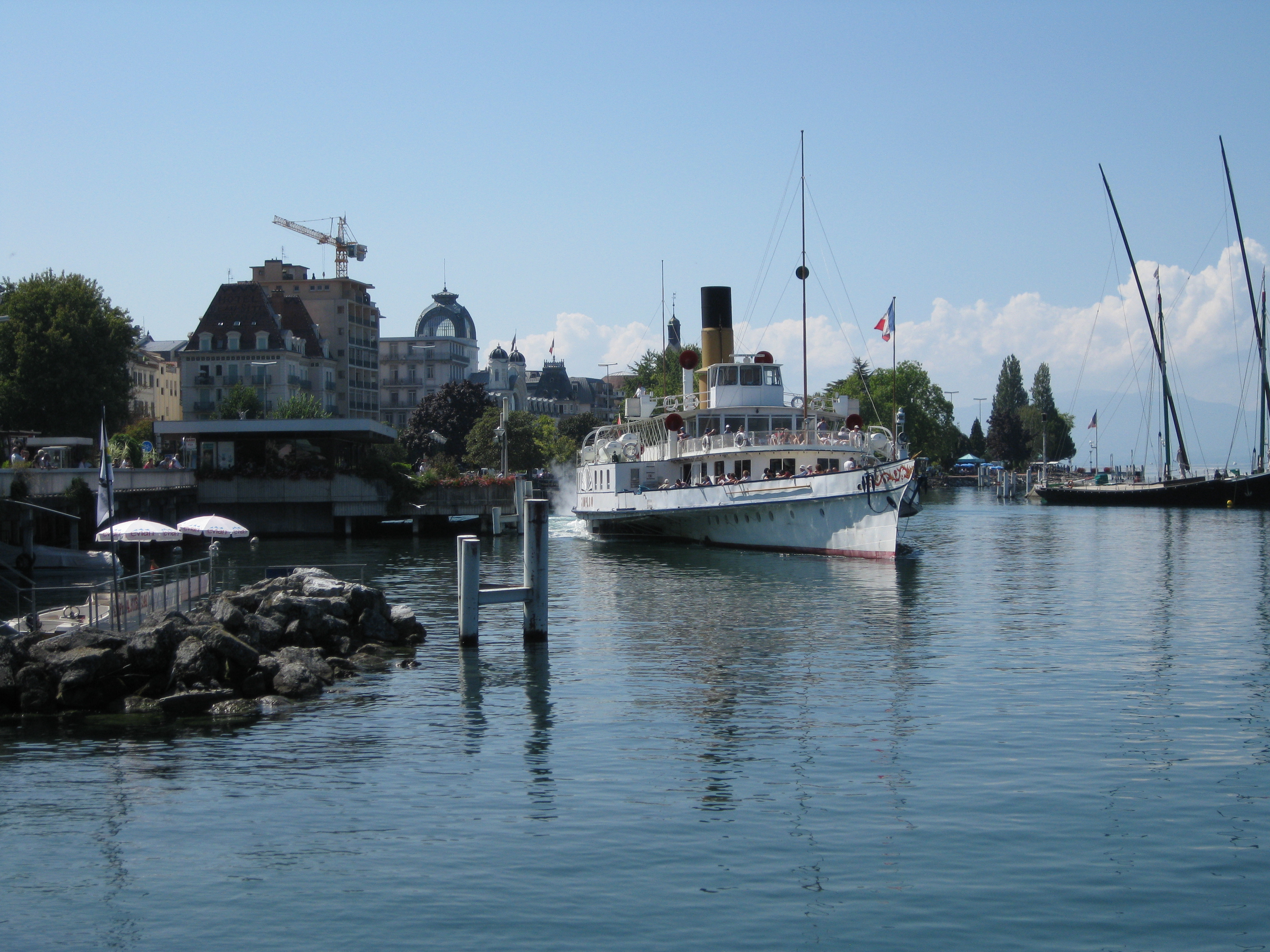 Around the lake of Geneva, Switzerland / France. Location see geotag.